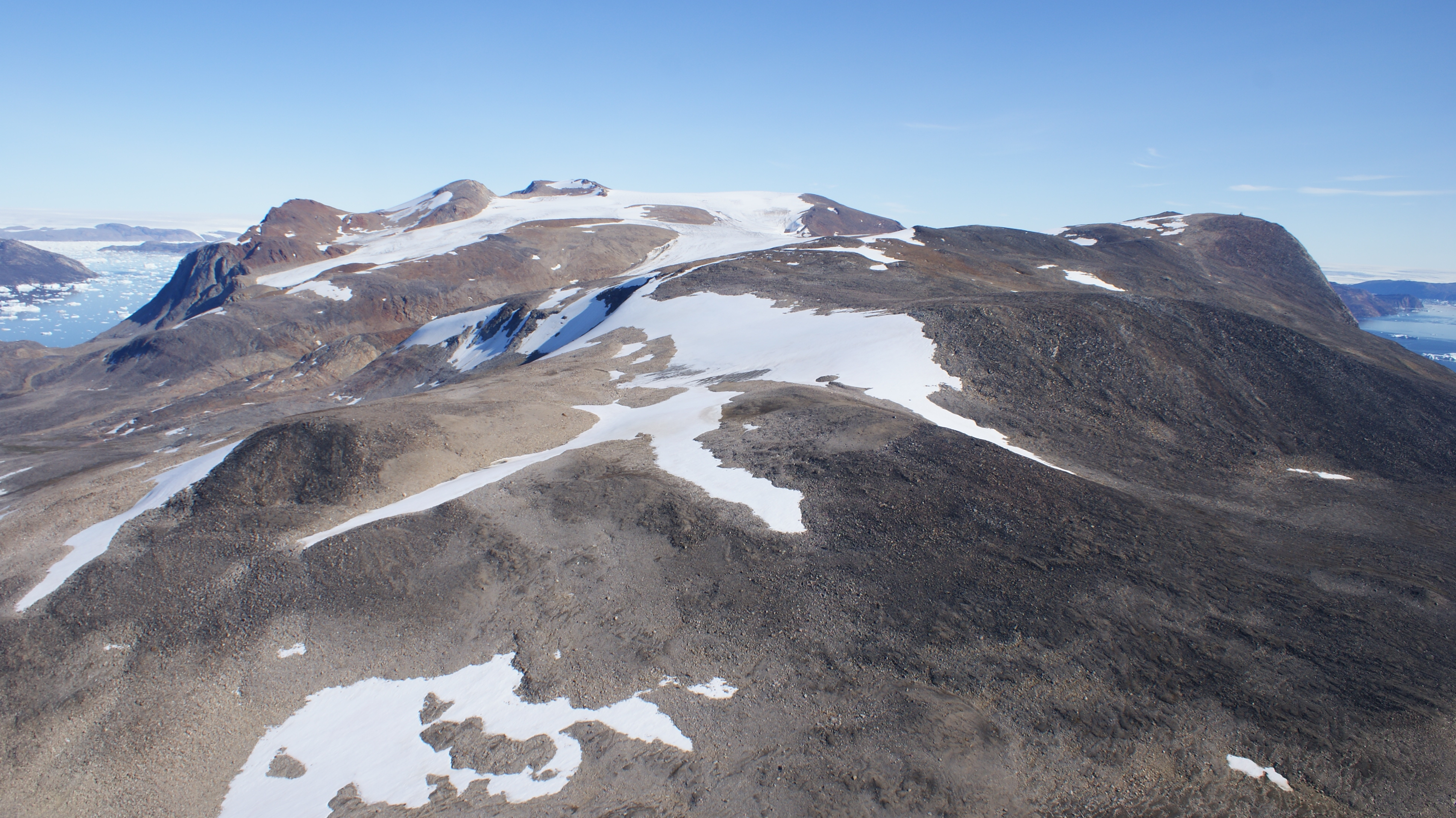 Aerial view of the interior (partially glaciated central ridge) of Kiatassuaq Island, Upernavik Archipelago, Greenland. Photographed from the Air Greenland Bell 212 during the Kullorsuaq-Nuussuaq flight.